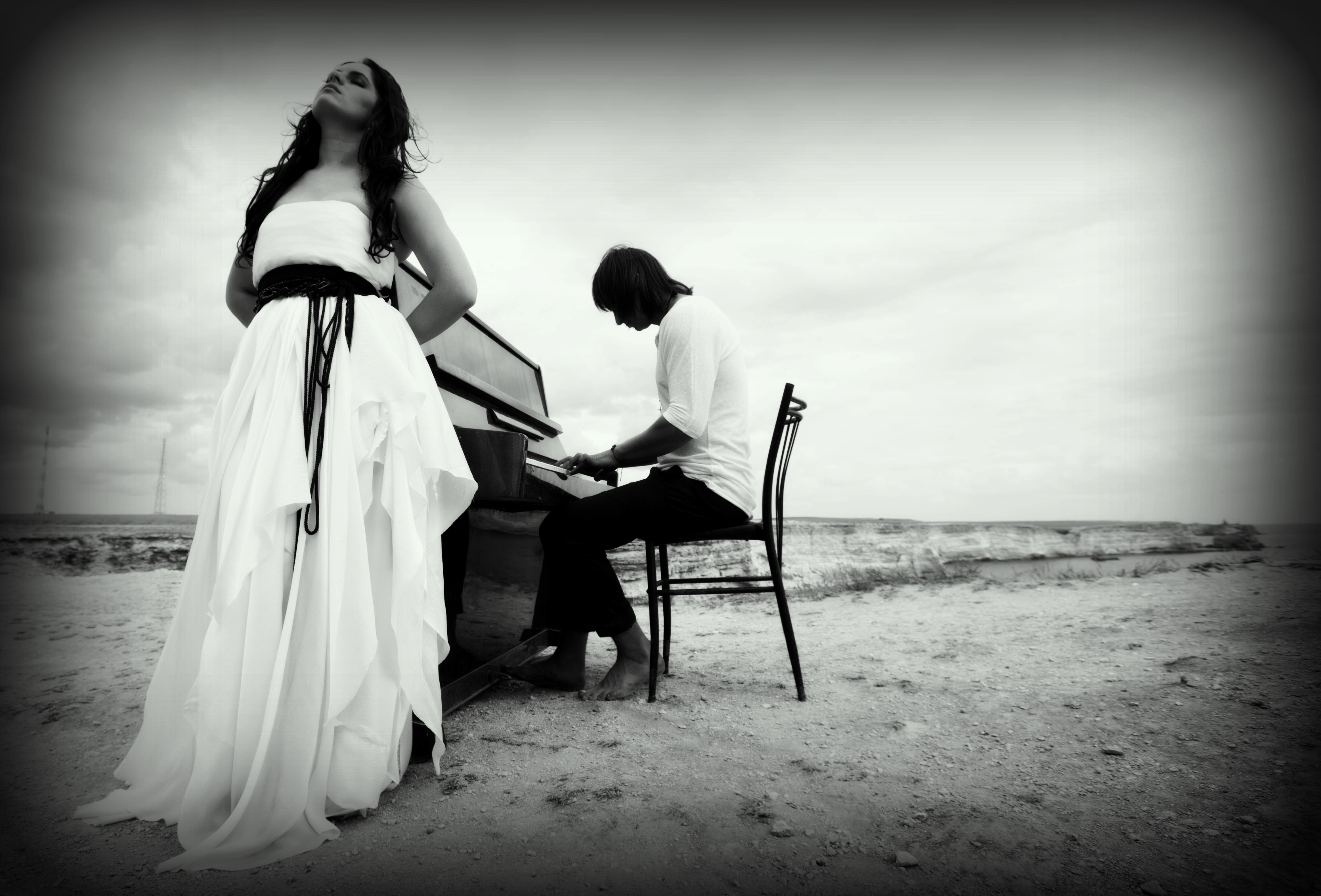 Marta Shpak during videoshooting for the song Story with Oleh Sobchuk ((S.K.A.Y))